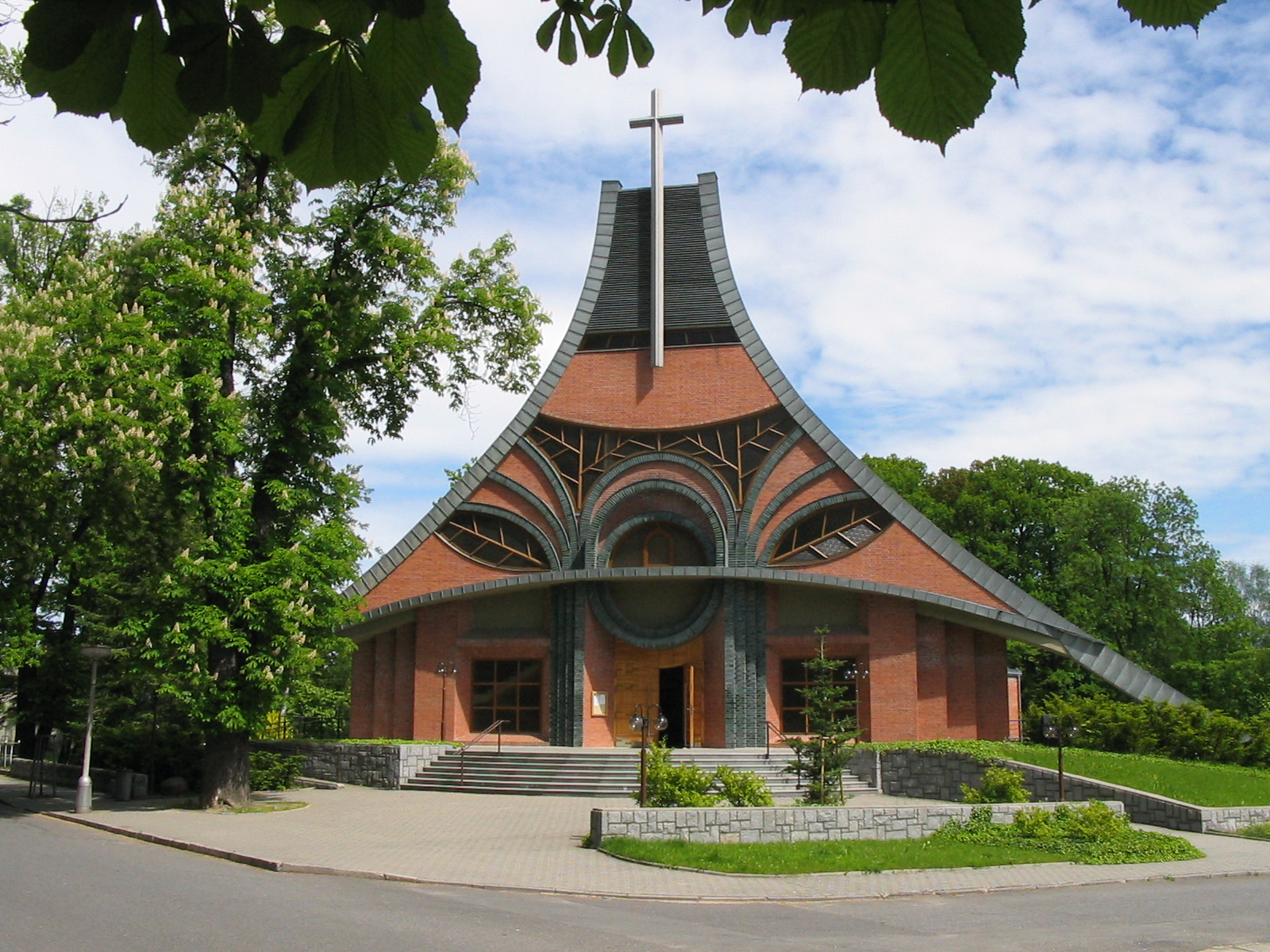 Modern church of Exaltation of the Holy Cross in the Czech Republic in Chuchelná.